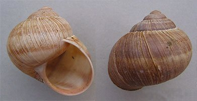 Helix pomatia; Roman snail from the Netherlands